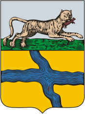 Kirensk (Irkutsk oblast), coat of arms (1790)